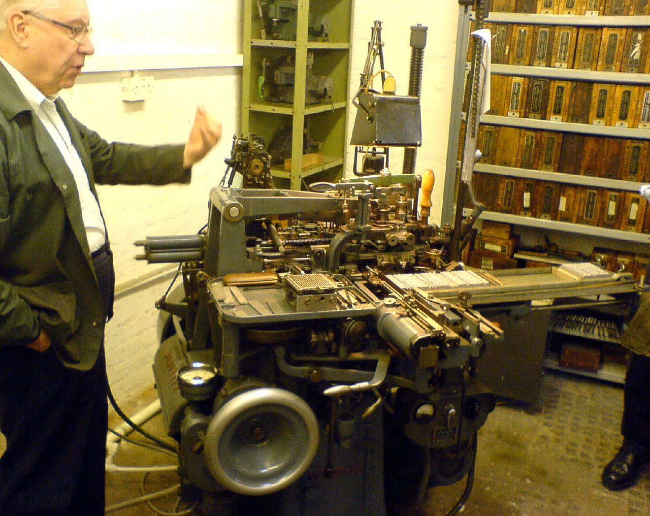 The roll of paper from the previous machine (see picture monotype -a) is used by this machine to create the actual type. A tiny vat of molten type - mostly lead - is transformed into individual hot metal types and then put togethor with the other letters to form the block of metal type with which to create the printed text. The machine is powered by compressed air and is seen here being operated by one of the guys who work at the Type Museum.